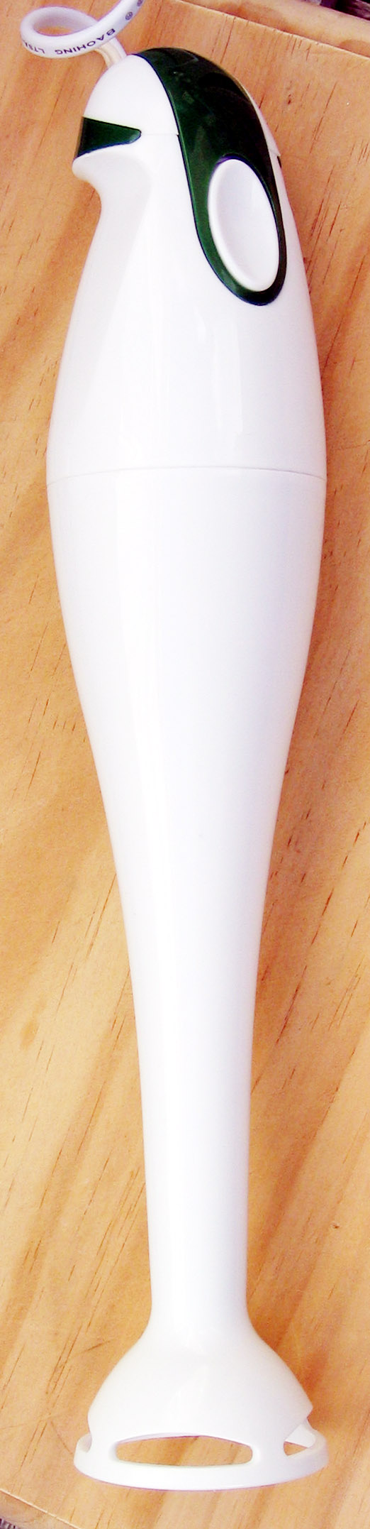 This is a wand blender (also known as a stick blender or hand blender).